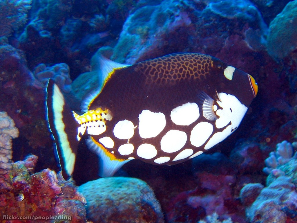 A Clown Triggerfish (Balistoides conspicillum) (Balistoides conspicillum on FishBase). Raging Horn, Osprey Reef, Coral Sea